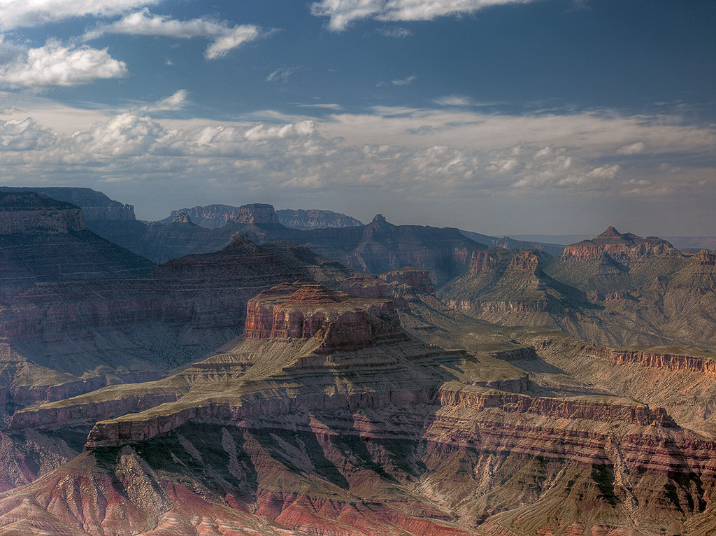 The view is from Lipan Point showing Apollo, Venus, and Jupiter Temples at Grand Canyon National Park.